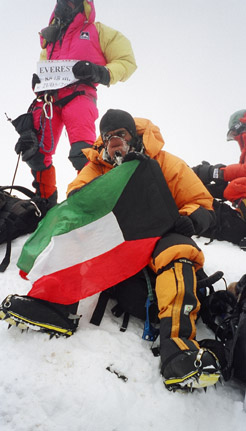 Zed Al Refai (Zeddy) on Everest summit